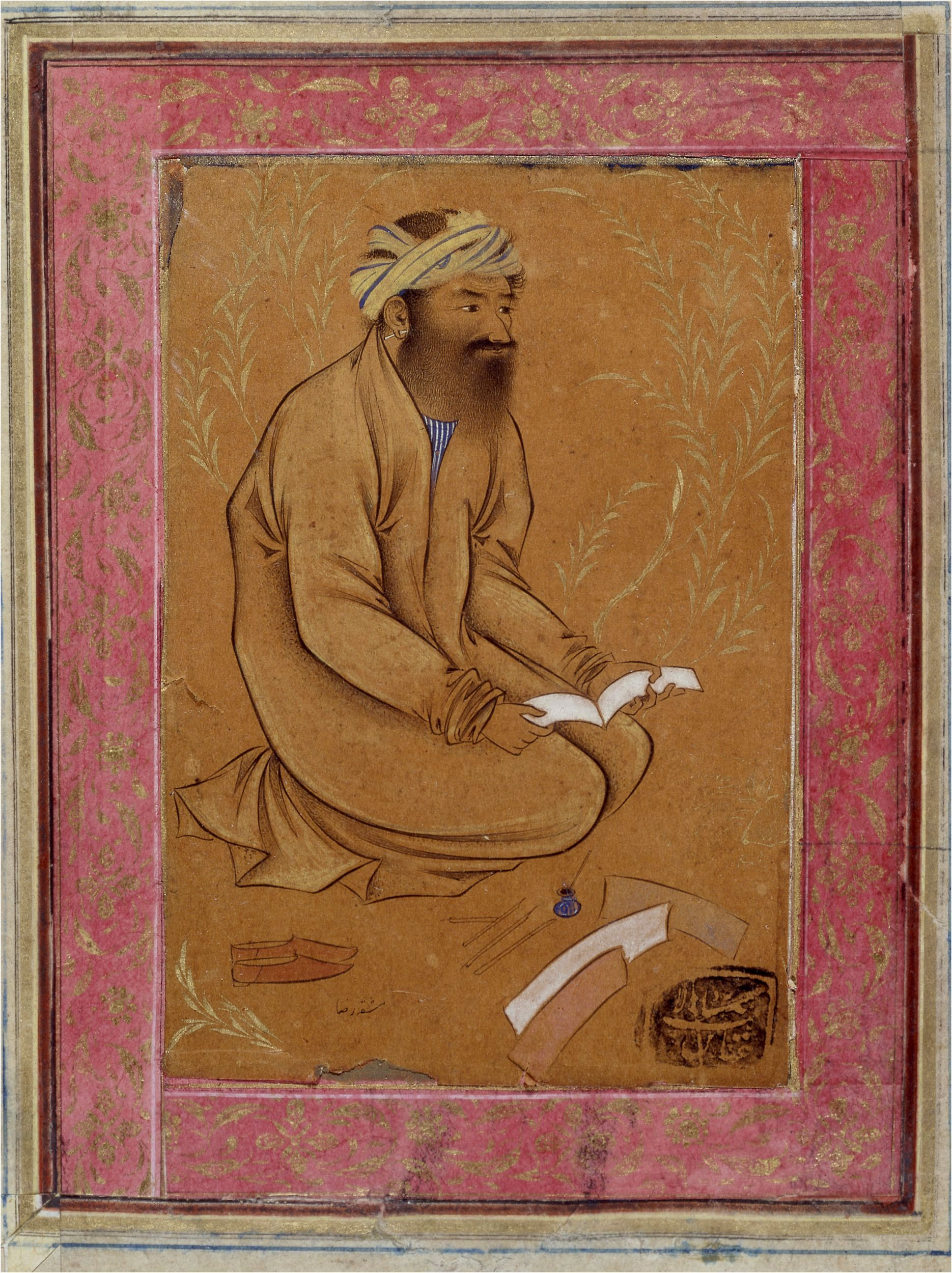 Riza. Calligrapher. ca. 1600, British museum